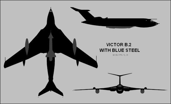 orthographic outline of Handley Page Victor B Mark 2